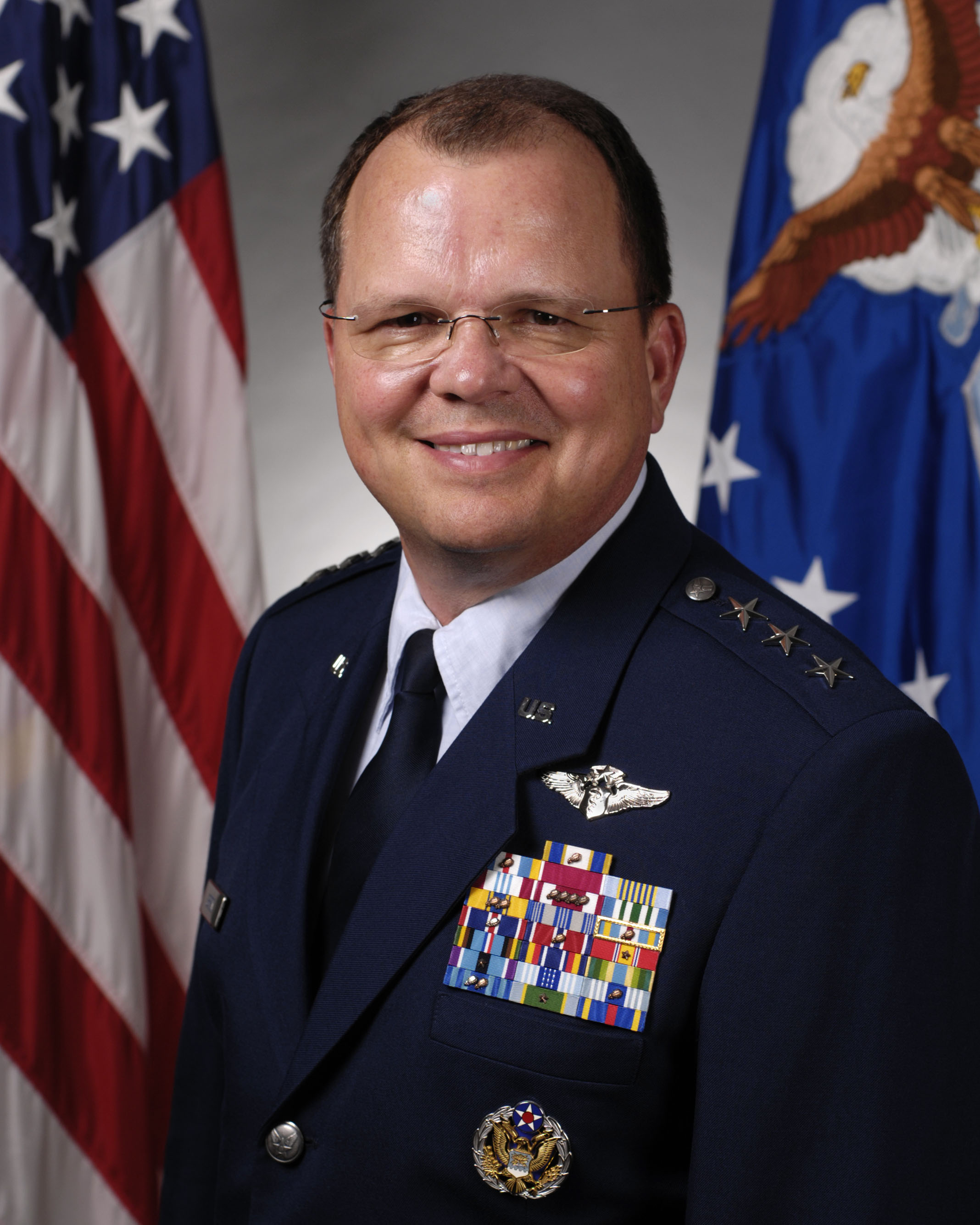 (U.S. Air Force photo by Jim Varhegyi)